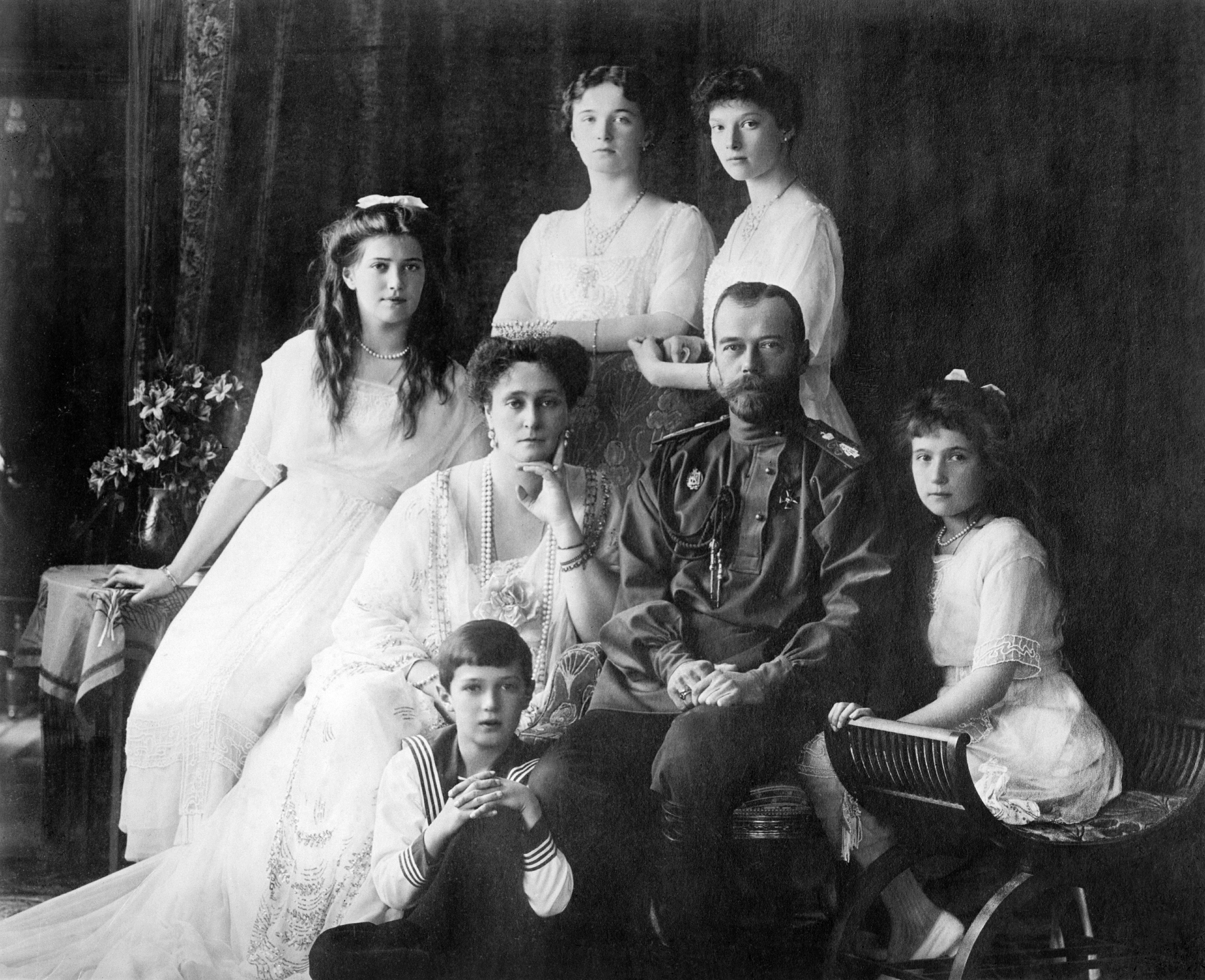 Russian Imperial familyPhoto shows members of the Romanovs, the last imperial family of Russia including: seated (left to right) Maria, Queen Alexandra, Czar Nicholas II, Anastasia, Alexei (front), and standing (left to right), Olga and Tatiana. (Source: Flickr Commons project, 2010)